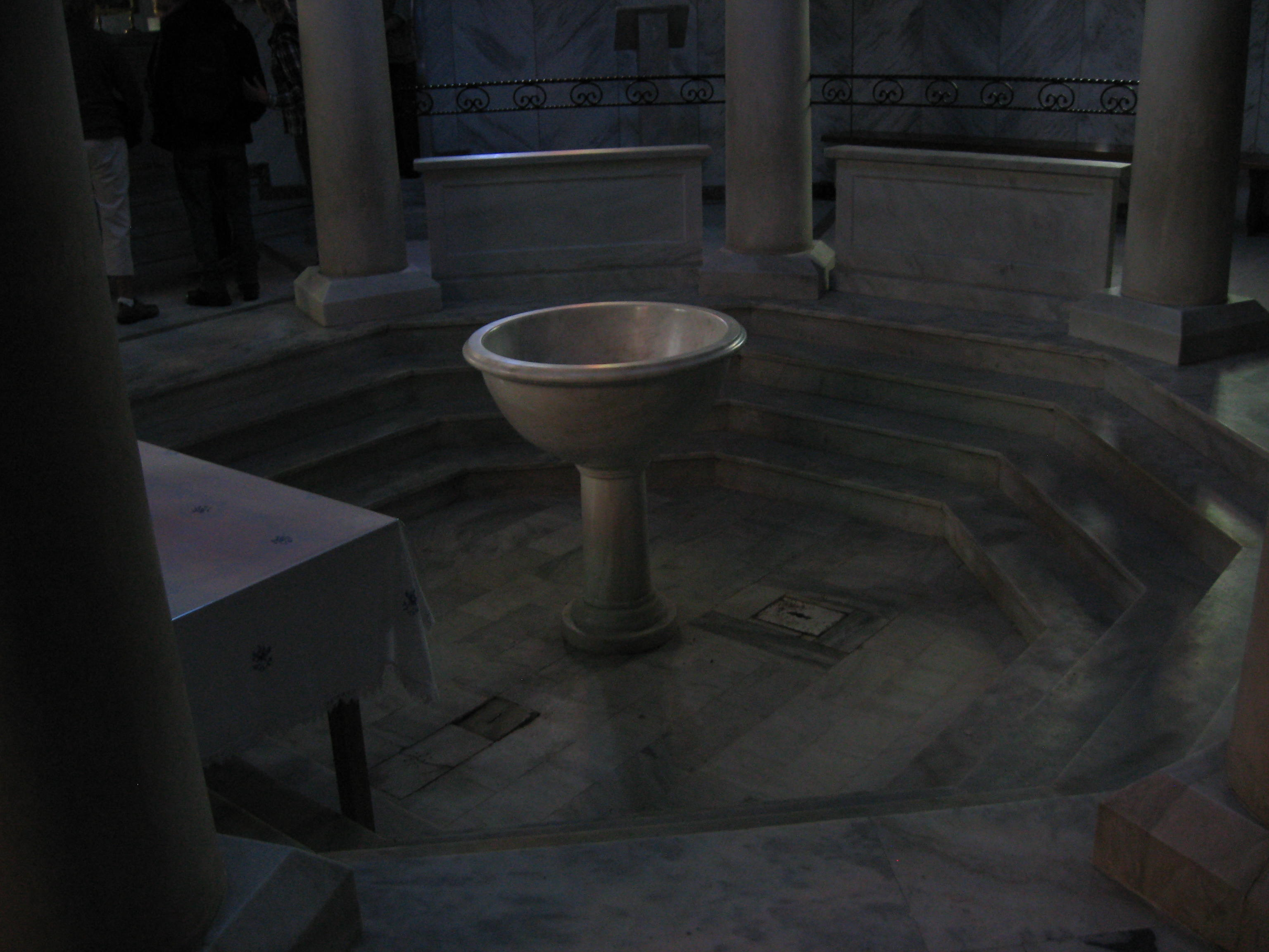 Church at site of baptism of Lydia